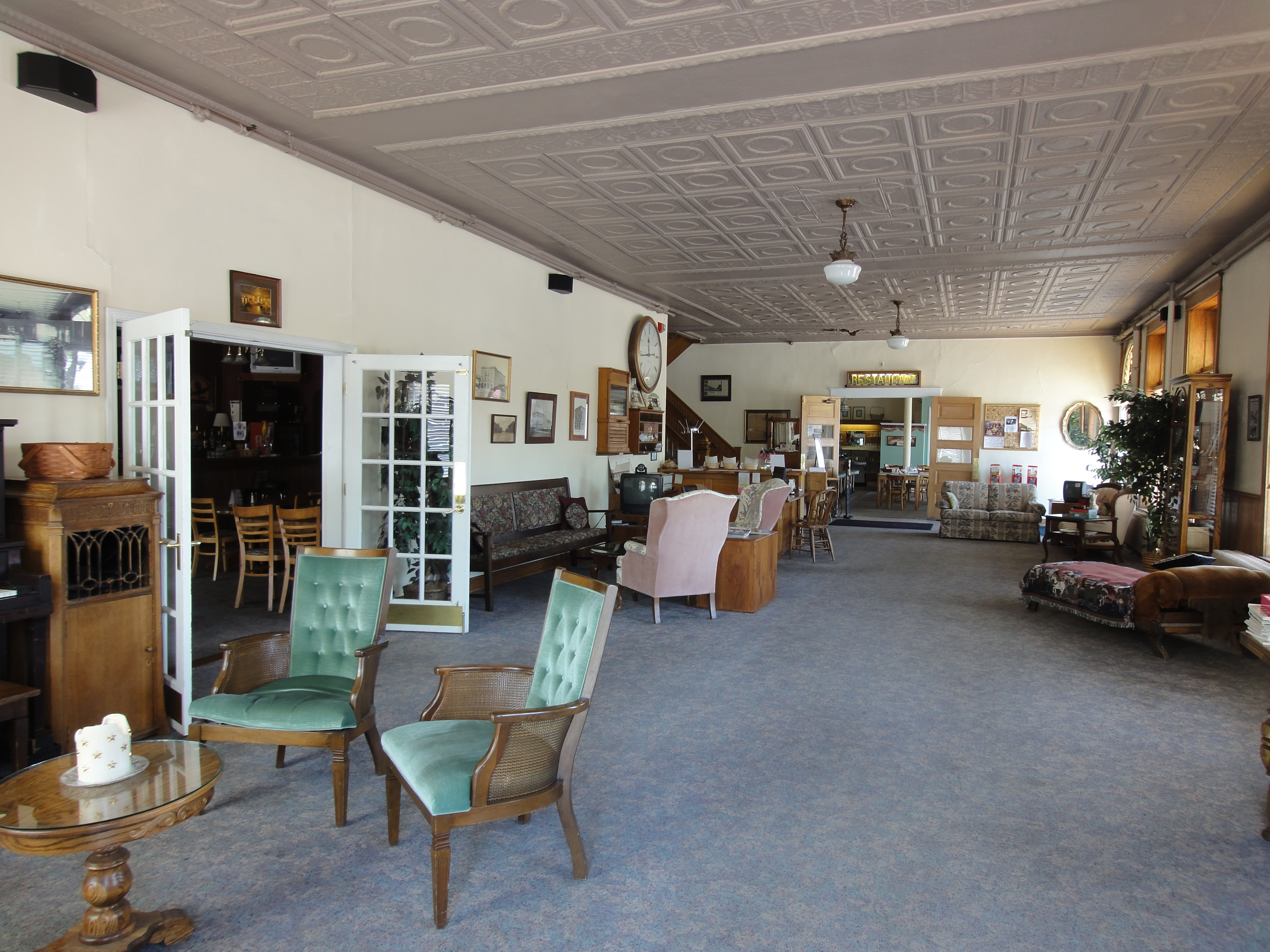 Interior of the Palmer House in Sauk Centre, MN.